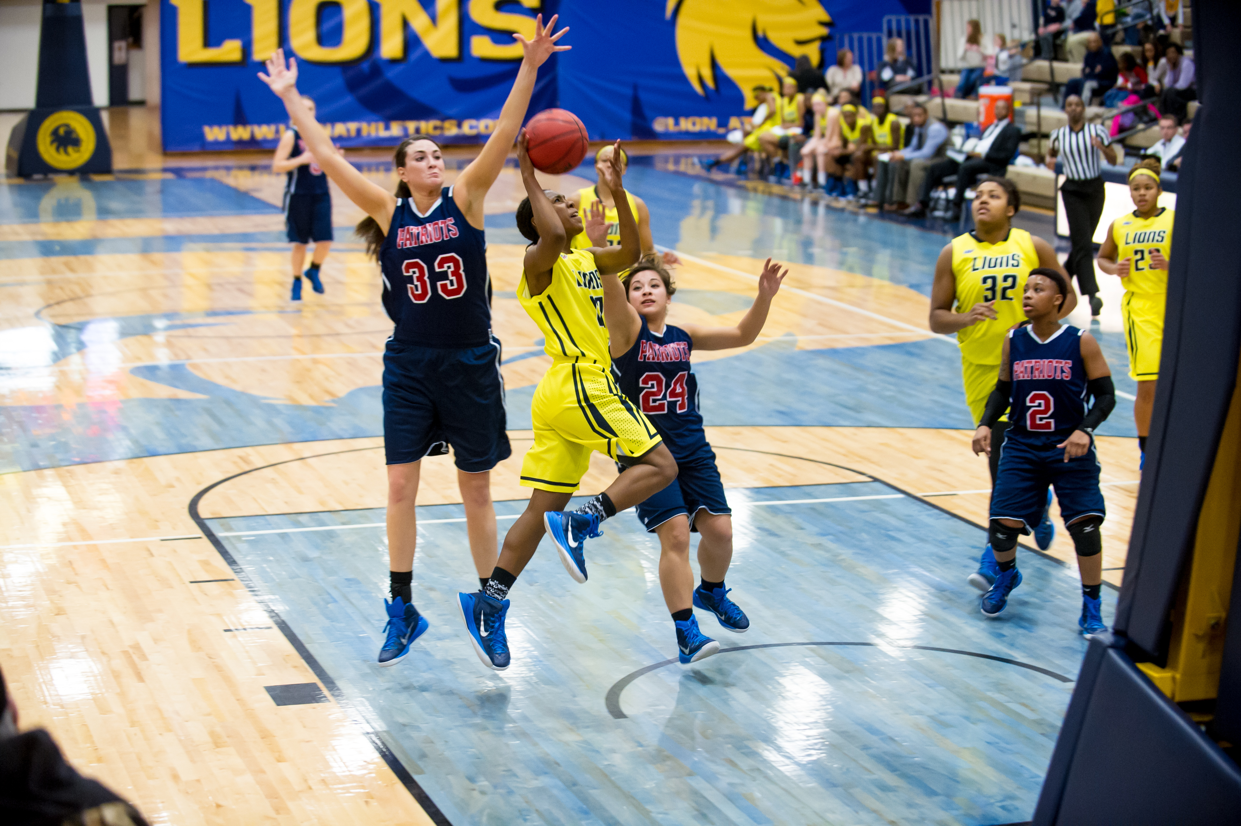 Athletics-WBSK vs ABU-0846.jpg 2014–15 Texas A&M–Commerce Lions women's basketball team